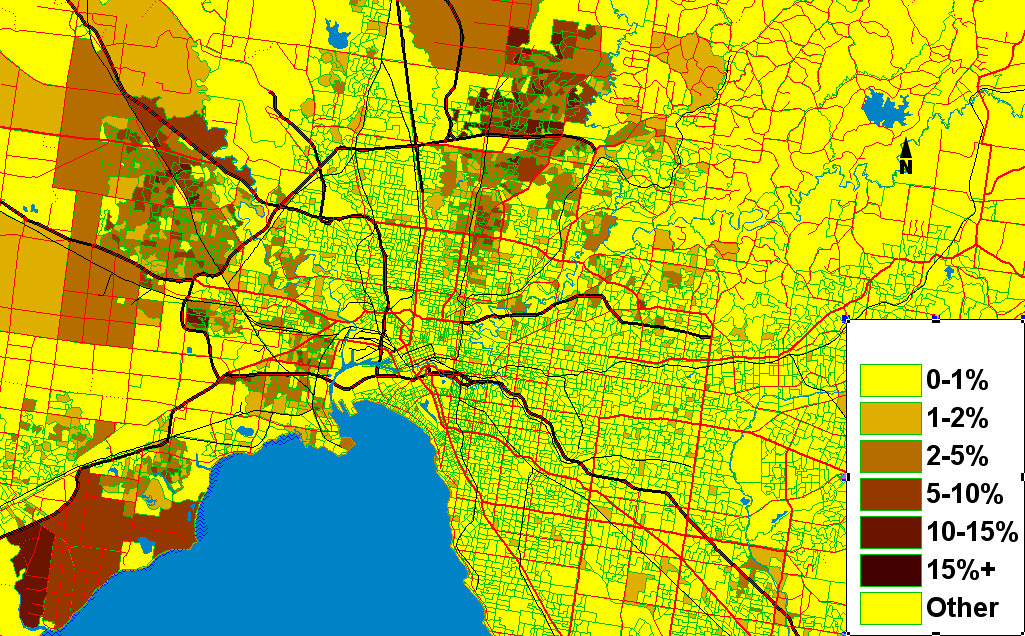 Proportion of persons who speak Macedonian at home out of total population in each Census District in Melbourne, 2006 Census